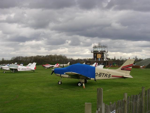 Barton Aerodrome, Eccles, Manchester Here are some of the planes on the field at Barton Aerodrome ( now named City Airport Manchester), home of the Lancashire Aero Club (the country's oldest flying club) and the Greater Manchester Police Helicopter. Behind the planes stands the 1933-built Control Tower (a listed building!). This aerodrome was the first municipal airport in Britain and remained in use until it became inadequate for air transport operations in the late 1930s, when the new airport at Ringway was opened.